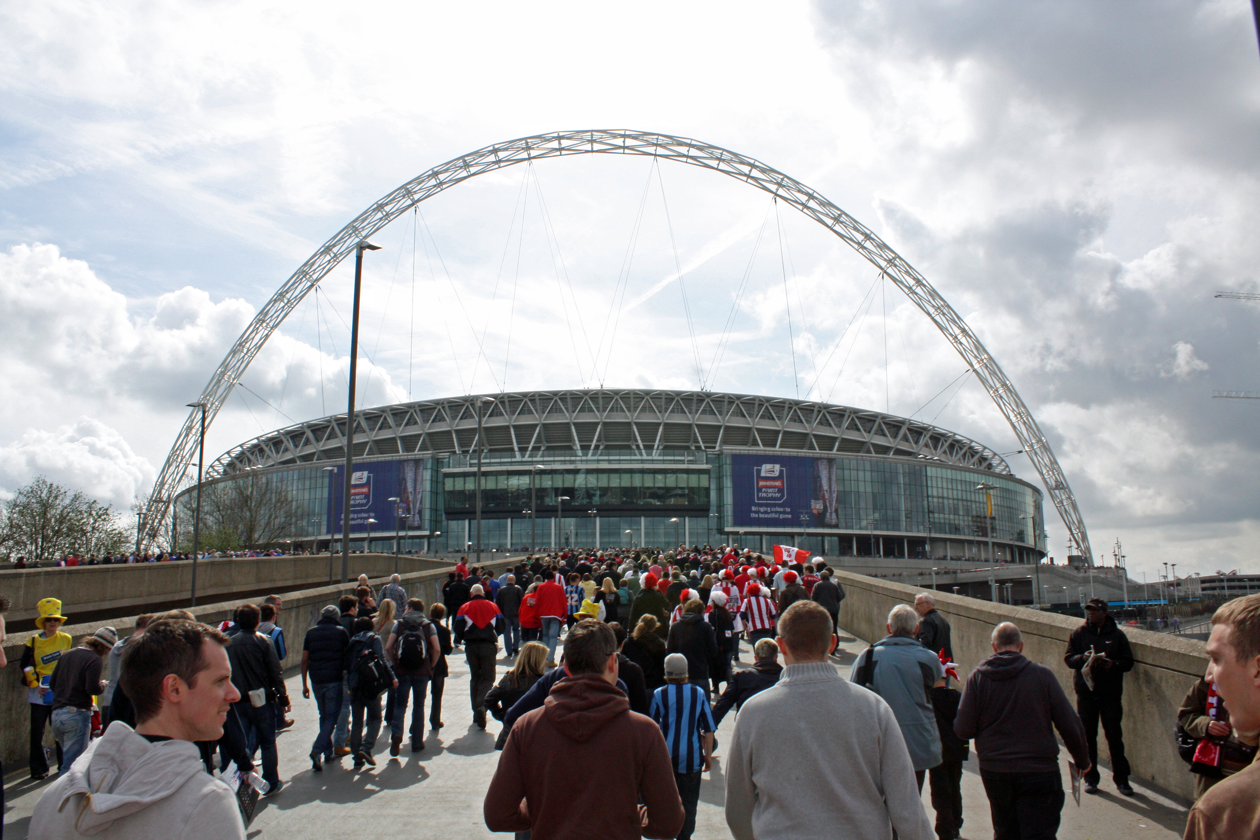 The New Wembley Way - Apr 2011 - More in Hope Than Expectation